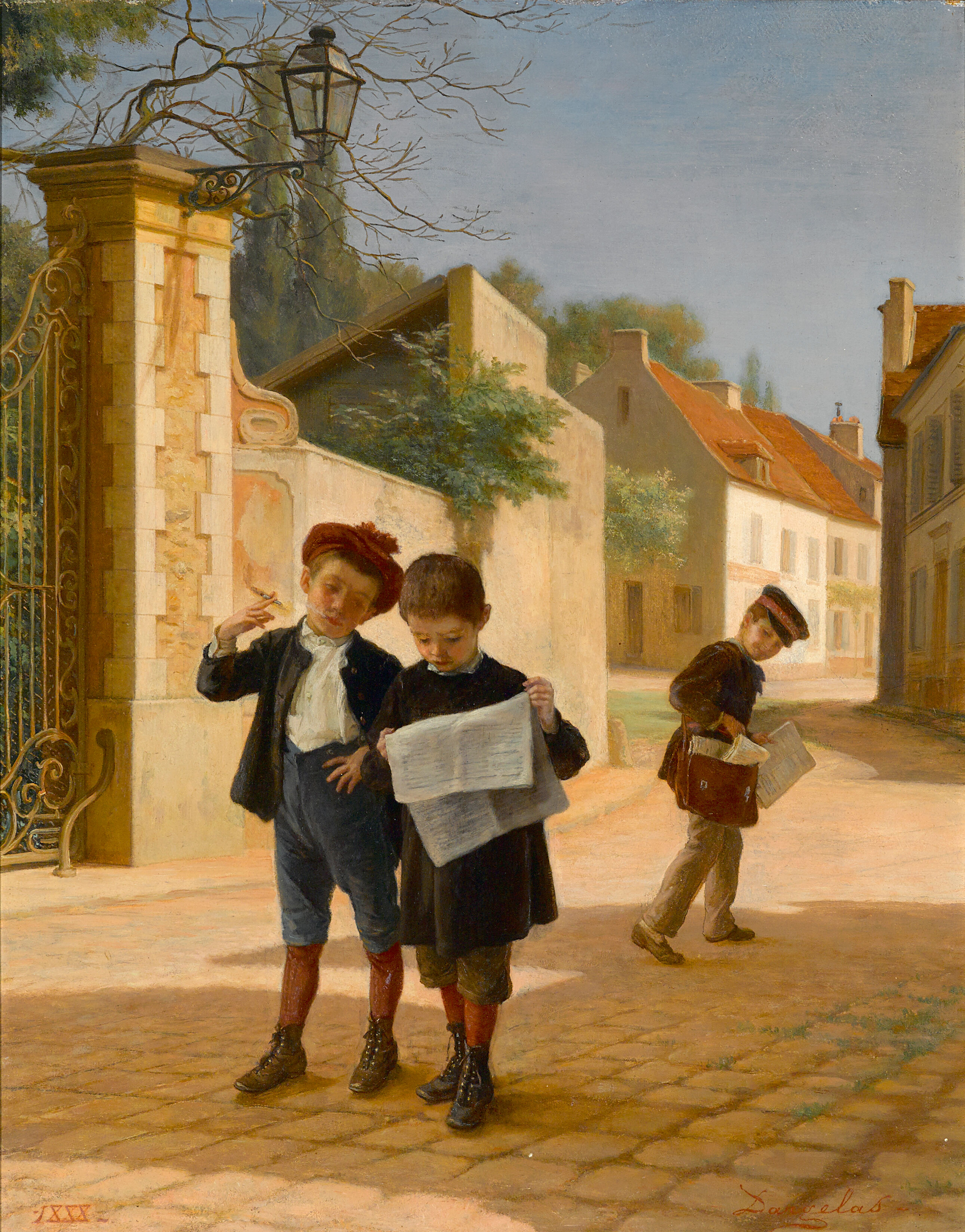 Schoolboys